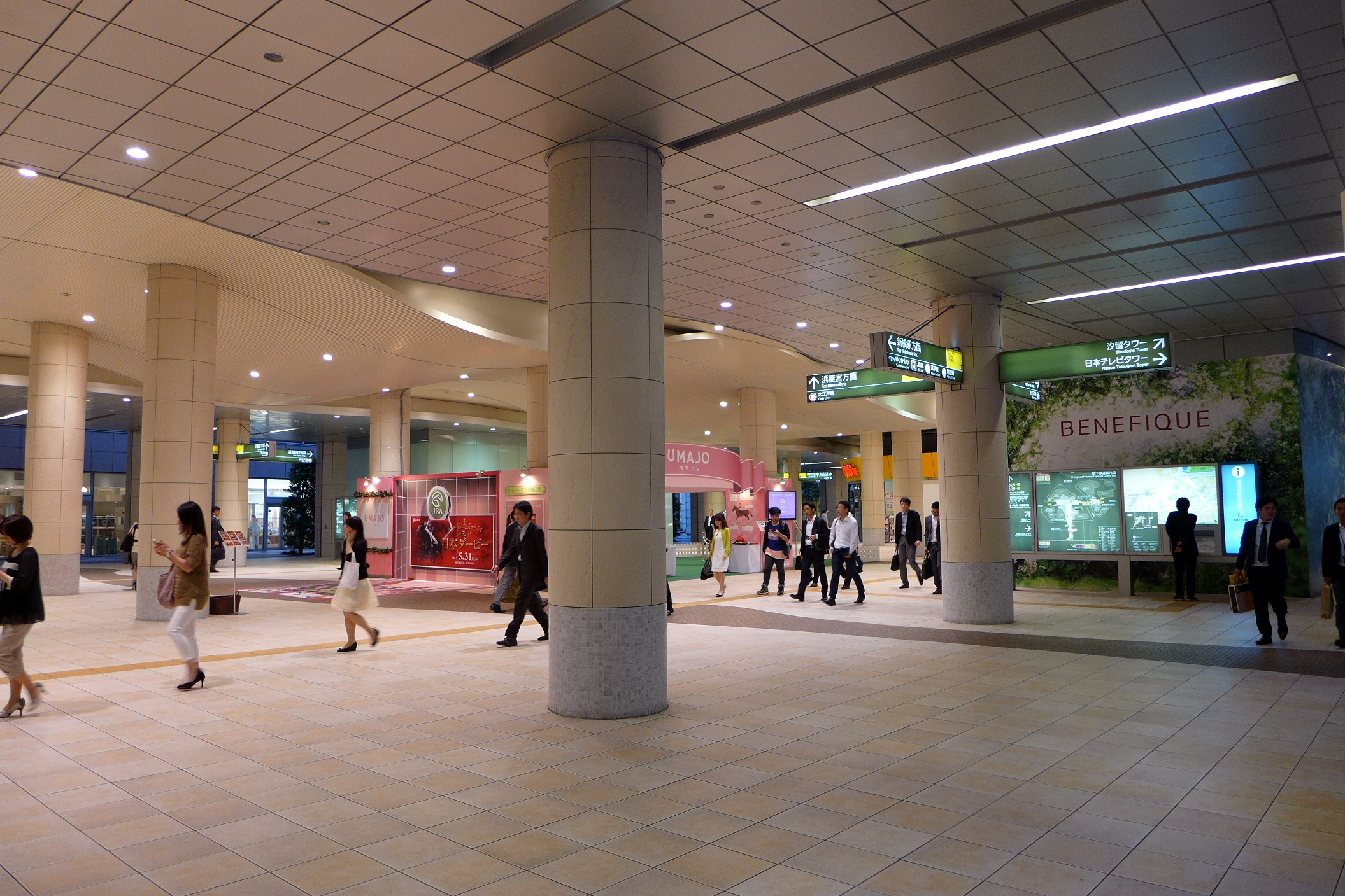 Shiodome Underground Pedestrian Concourse